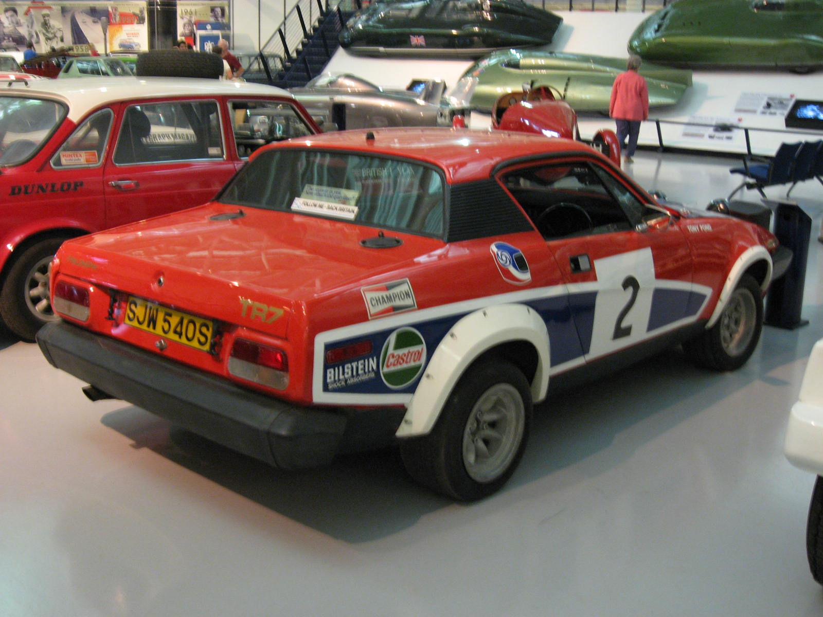 Triumph tr7 v8 rally car at the British motoring heritage museum gaydon .